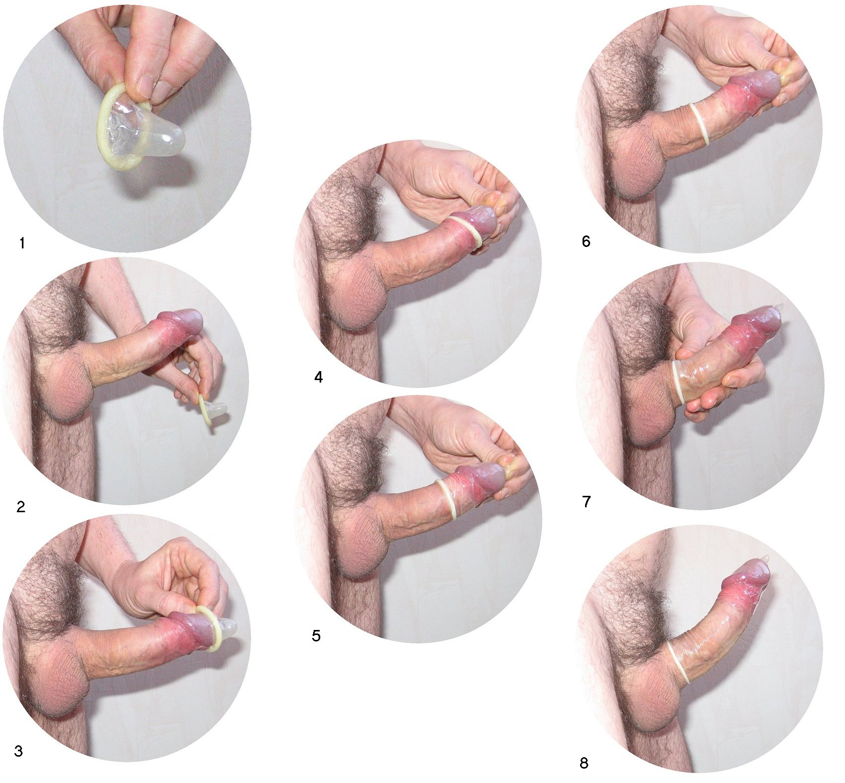 How to pull a condom.